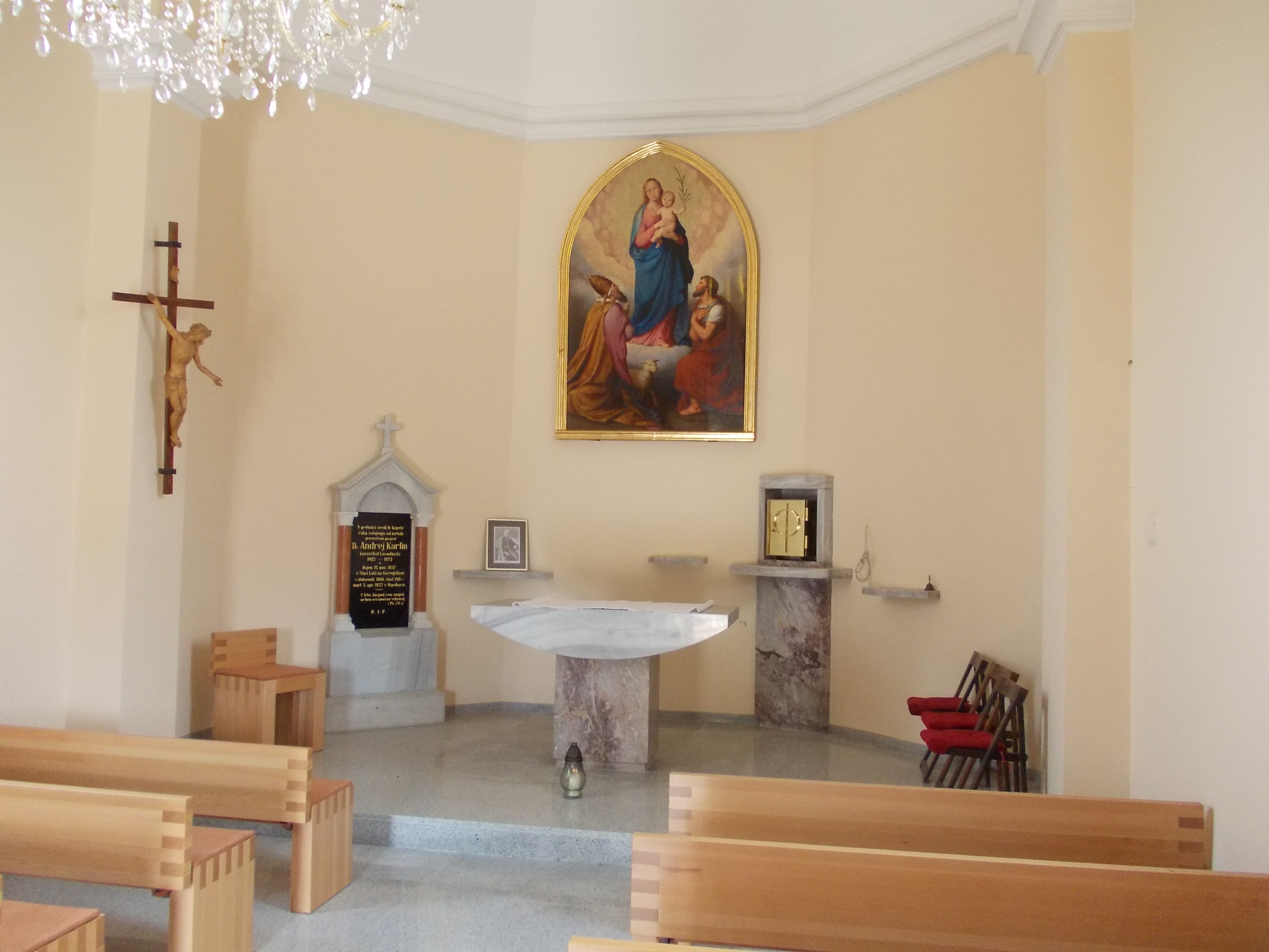 Saint Mary of Help Chapel, Maribor. The painting of Madonna and Child was made in 1835.